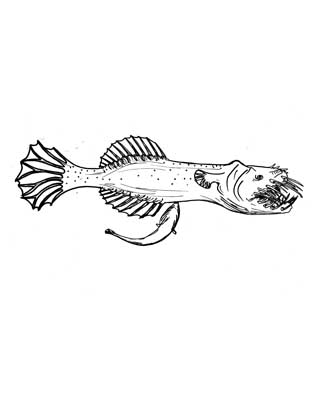 Drawing of the Needlebeard Anglerfish, Neoceratias spinifer